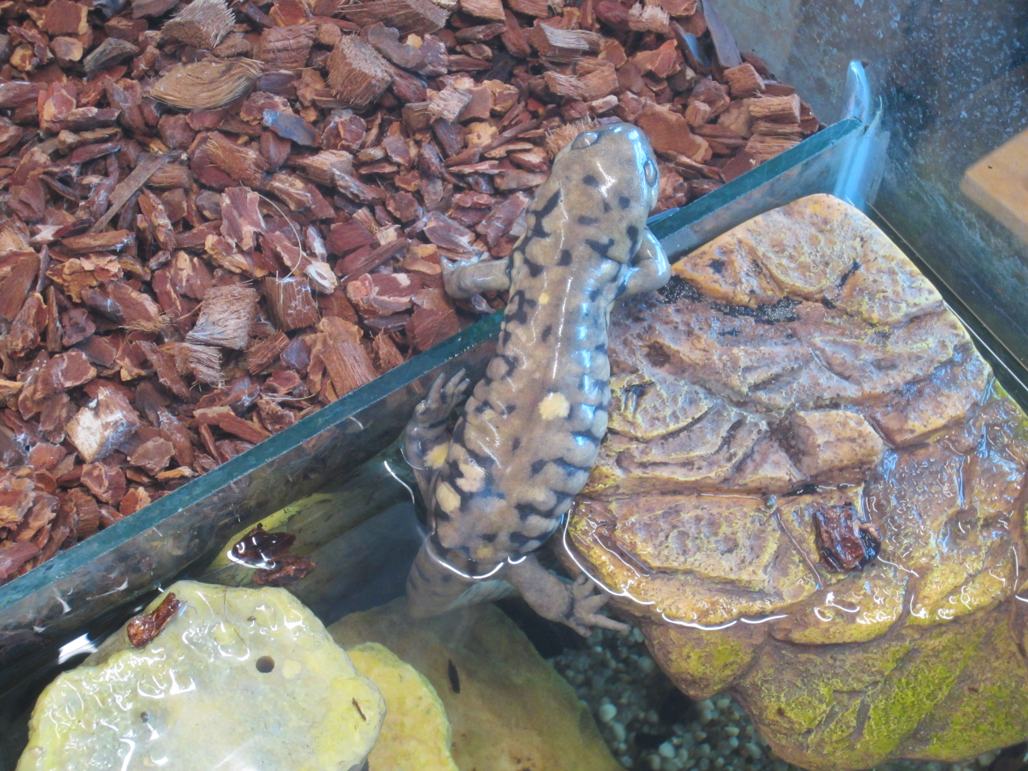 Salamander in residence at the Living Prairie Museum interpretive center. Ambystoma mavortium diaboli.